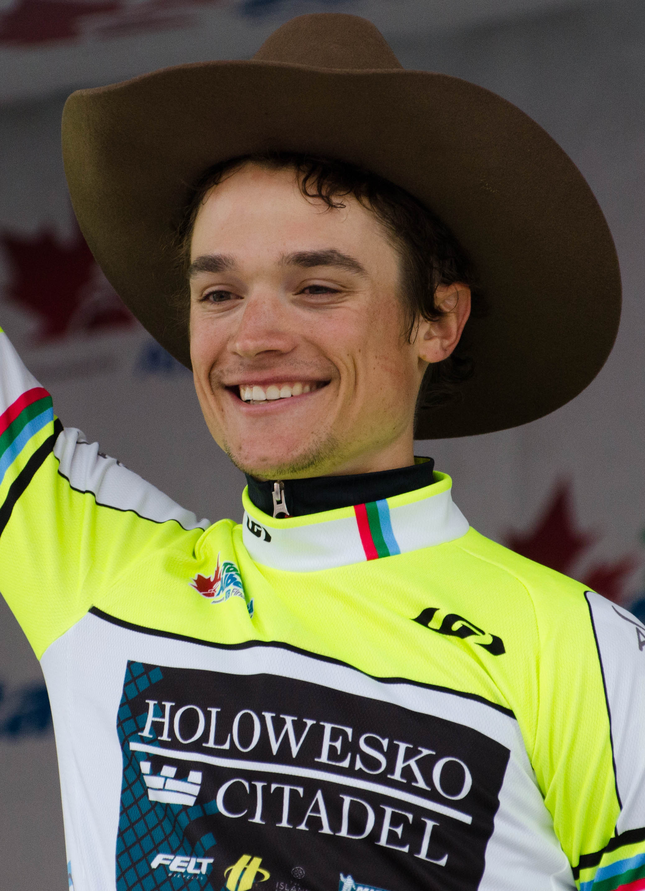 Robin Carpenter at the 2016 Tour of Alberta Please credit Connor Mah if used elsewhere.